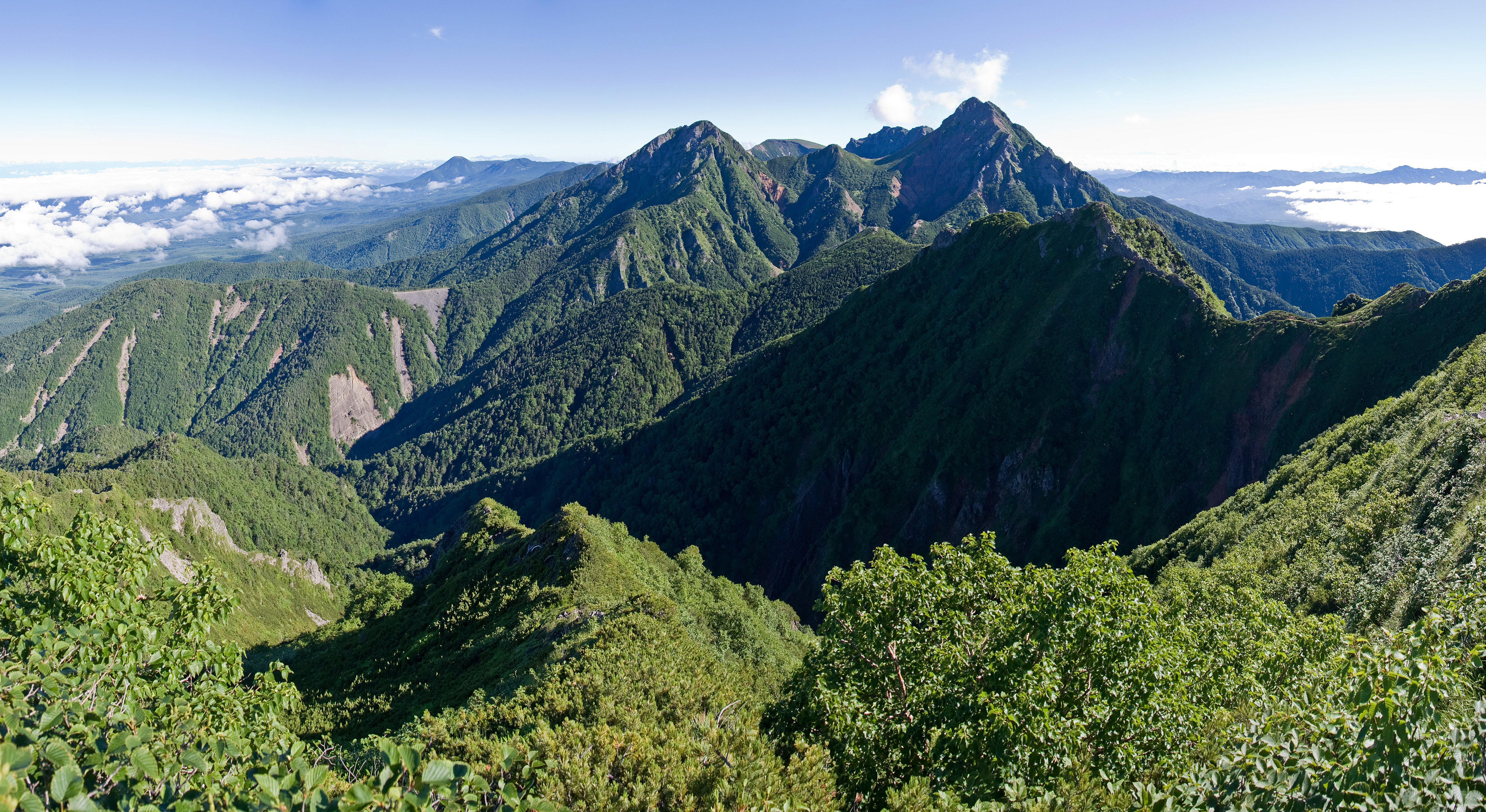 Mt. Akadake and Mt. Amidadake as seen from the summit of Mt. Gongendake in the Southern Yatsugatake Volcanic Group, Yamanashi Pref., Honshu, Japan.